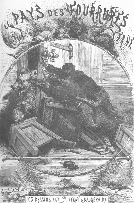 An illustration from Jules Verne's novel "The Fur Country" (1871-72) drawn by Jules-Descartes Férat or Alfred Quesnay de Beaurepaire.